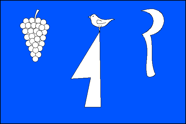 Municipal flag of Rozdrojovice village, Brno-Country District, Czech Republic.